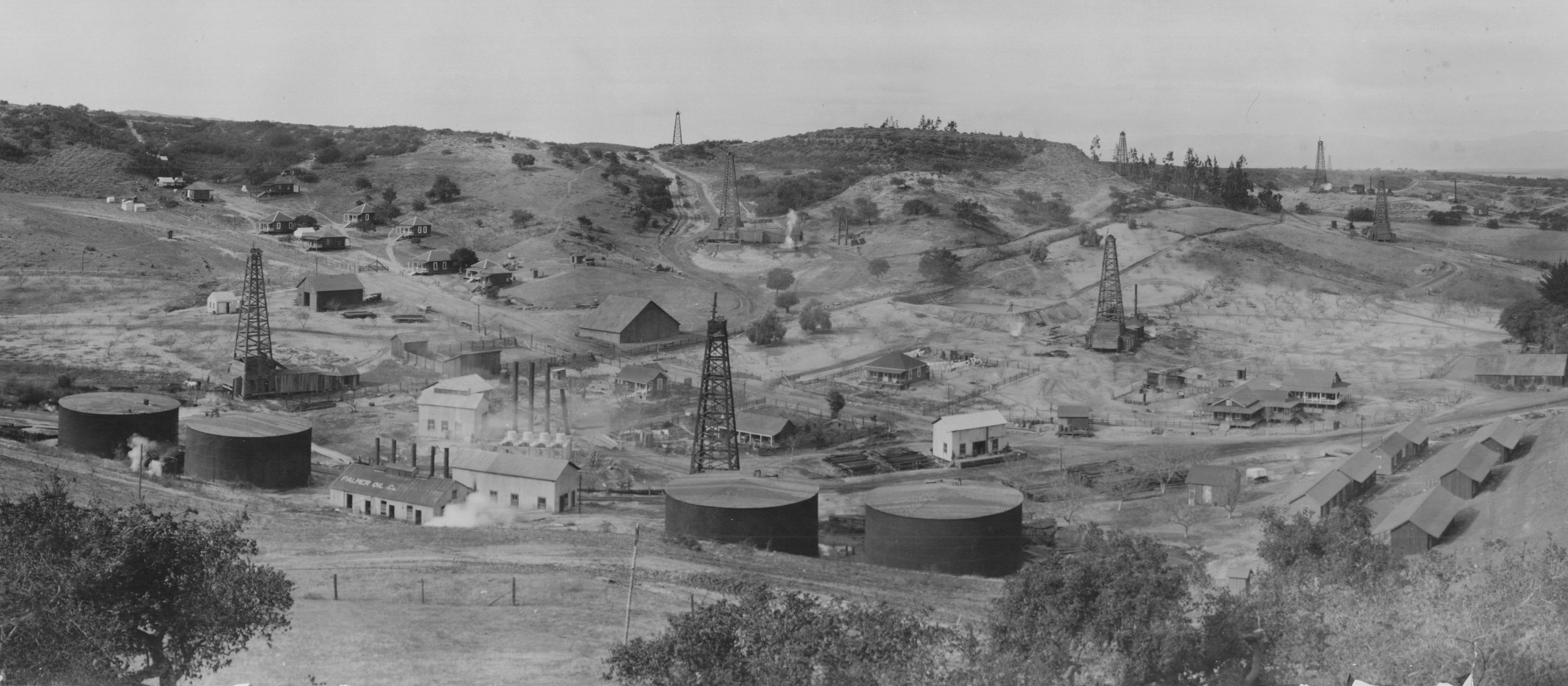 Undated photo of Palmer Oil Co. area of operations on Cat Canyon Oil Field, circa 1911. Crop of a much larger panorama. Original in personal collection of uploader. PD due to age. Judkins Studio left Santa Maria in 1916 (terminus ante quem).